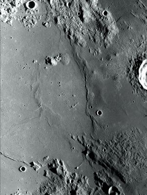 Manilius domes in the region (a slice of Manilius crater is seen on right edge of image). LROC mosaic image from both WAC No. M116282898ME and WAC No. M116269338ME (unofficial image, stacked using the LROC_WAC_Previewer software)